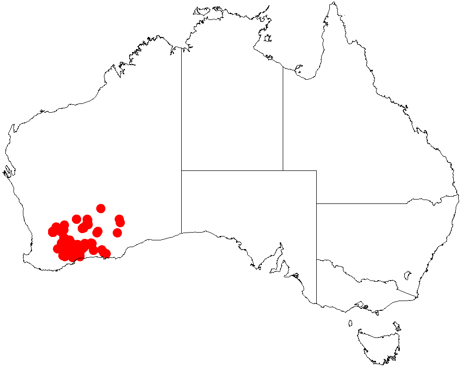 Acacia uncinella occurrence data from Australasian Virtual Herbarium downloaded from on December 8 2018